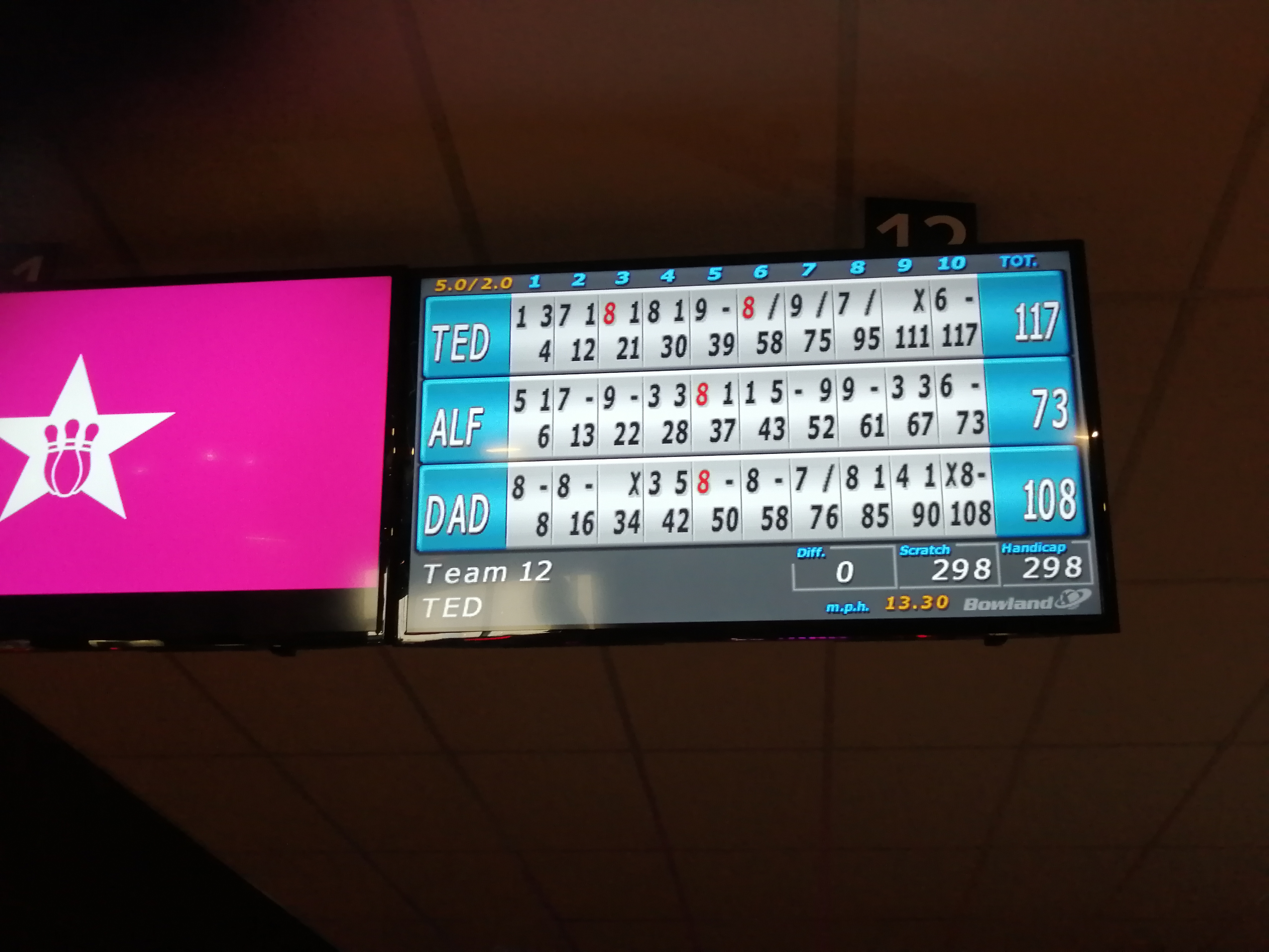 The display for your scores at Hollywood Bowl